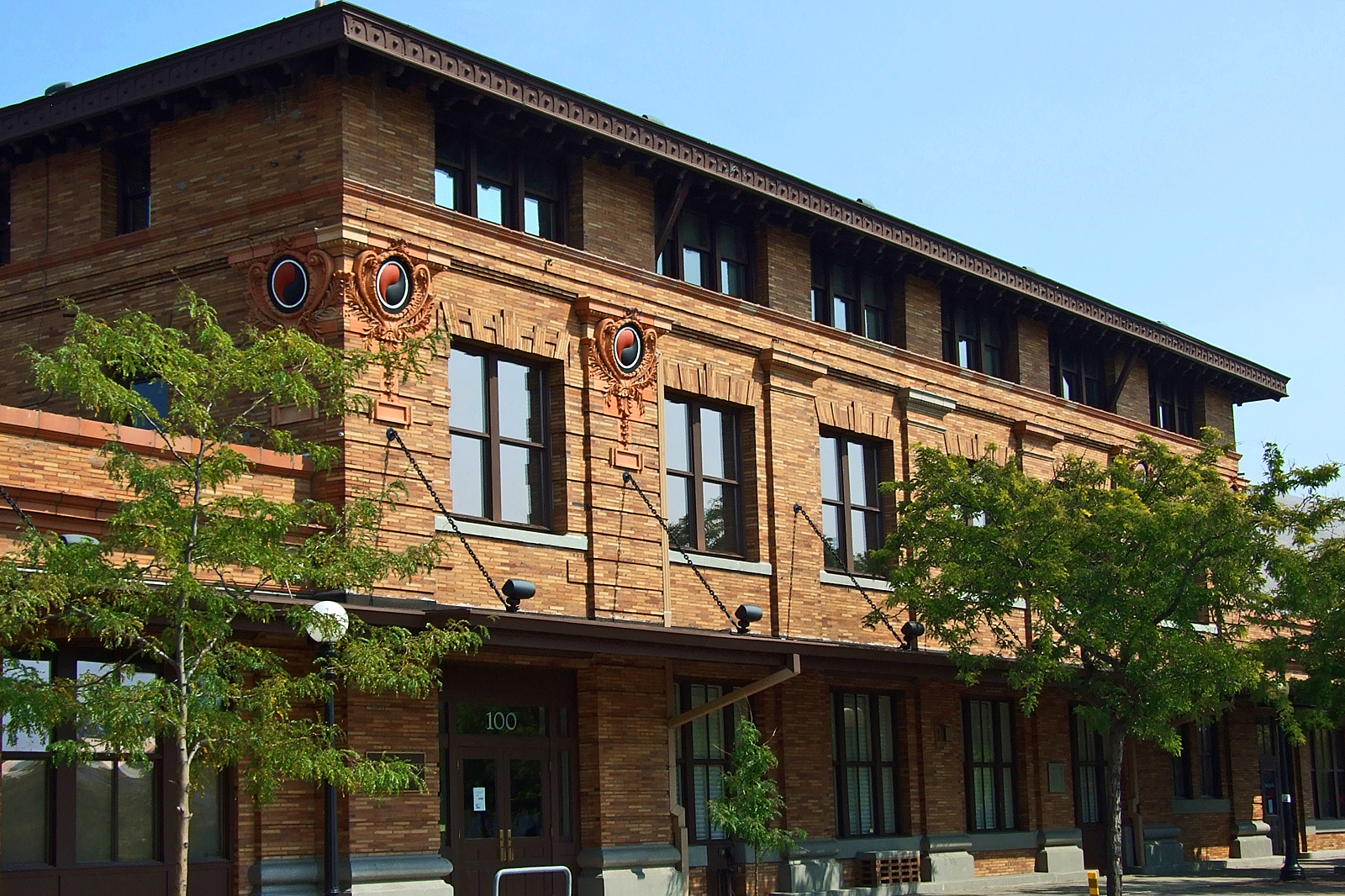 Missoula Northern Pacific Railroad Depot — in Missoula, Montana. When the tracks of the Northern Pacific reached Missoula in 1883, it was possibly the most significant event in the town’s history. Reliable transportation transformed the minor trade and lumber center to a major economic and commercial distribution hub for western Montana. The Northern Pacific constructed Missoula’s first depot in 1883. This temporary wooden structure was replaced with a fine new building in 1896, constructed by the Higgins brothers, who intended to turn it over to Northern Pacific officials in exchange for building costs. Just prior to completion, arson reduced the uninsured building to ruins. Several years later, the Northern Pacific Railway built the present depot, which opened in 1901. The celebrated St. Paul architectural firm of Reed and Stem, which specialized in railroad depot design (and eventually designed over one hundred depots, as well as the engineering specifications for New York City’s Grand Central Station) drew the blueprints for this splendid symbol of Missoula’s importance. The brick depot, designed in simplified Renaissance Revival style, presides over Circle Square at the foot of the commercial district. Terra cotta roof tile, brick pilasters, and gently arched windows lend refined dignity. Terra cotta medallions, which enclose the Northern Pacific emblem, recall the original function of this commanding building, when the railroad reigned supreme.